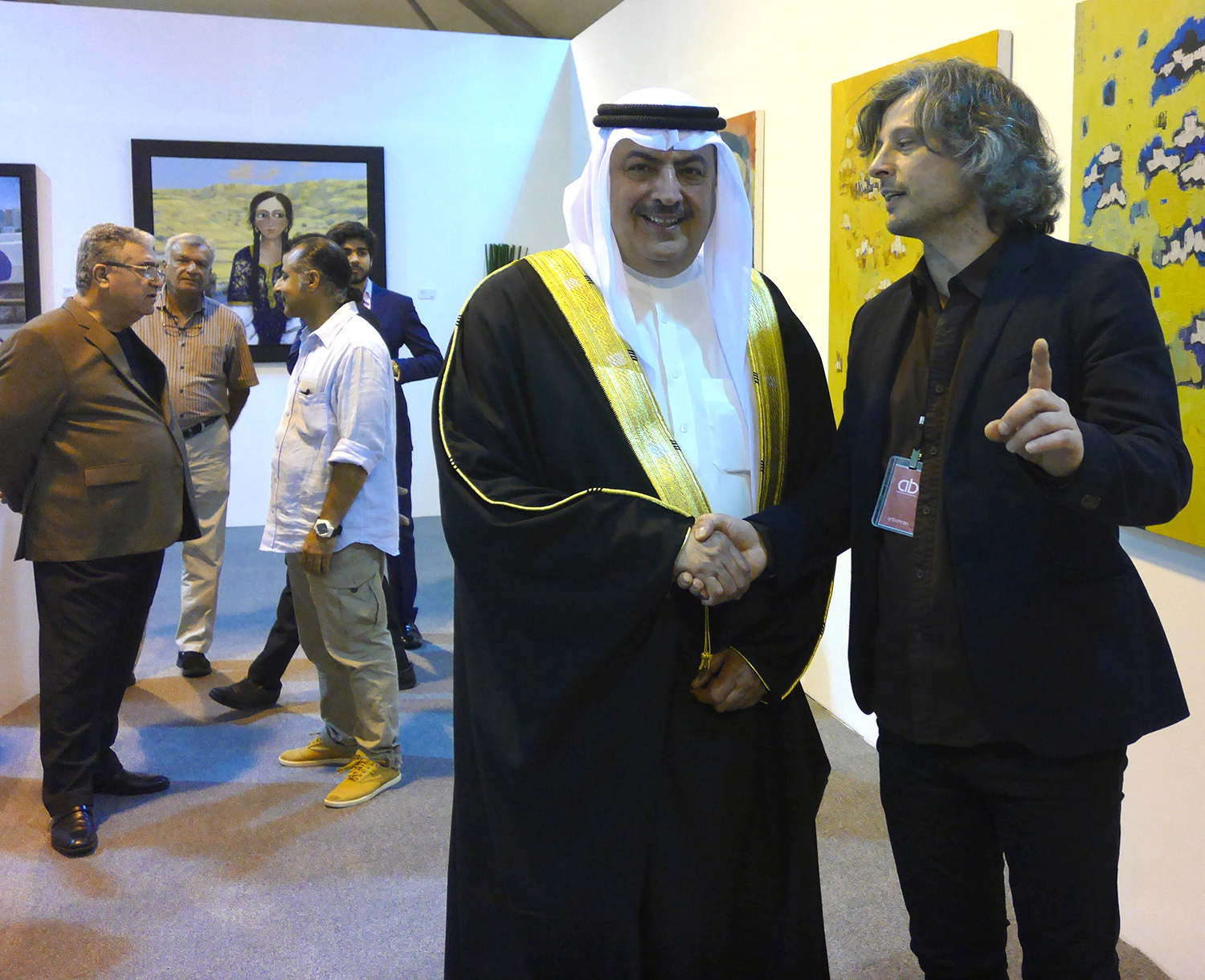 German artist Sebastian Bieniek (right) speaking to Sheikh Rashid bin Khalifa Al Khalifa (Rashid Al Khalifa) (left) at the Views Bahrain exhibition in 2016